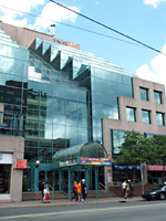 The outside of Park Lane Mall in Halifax, Nova Scotia.